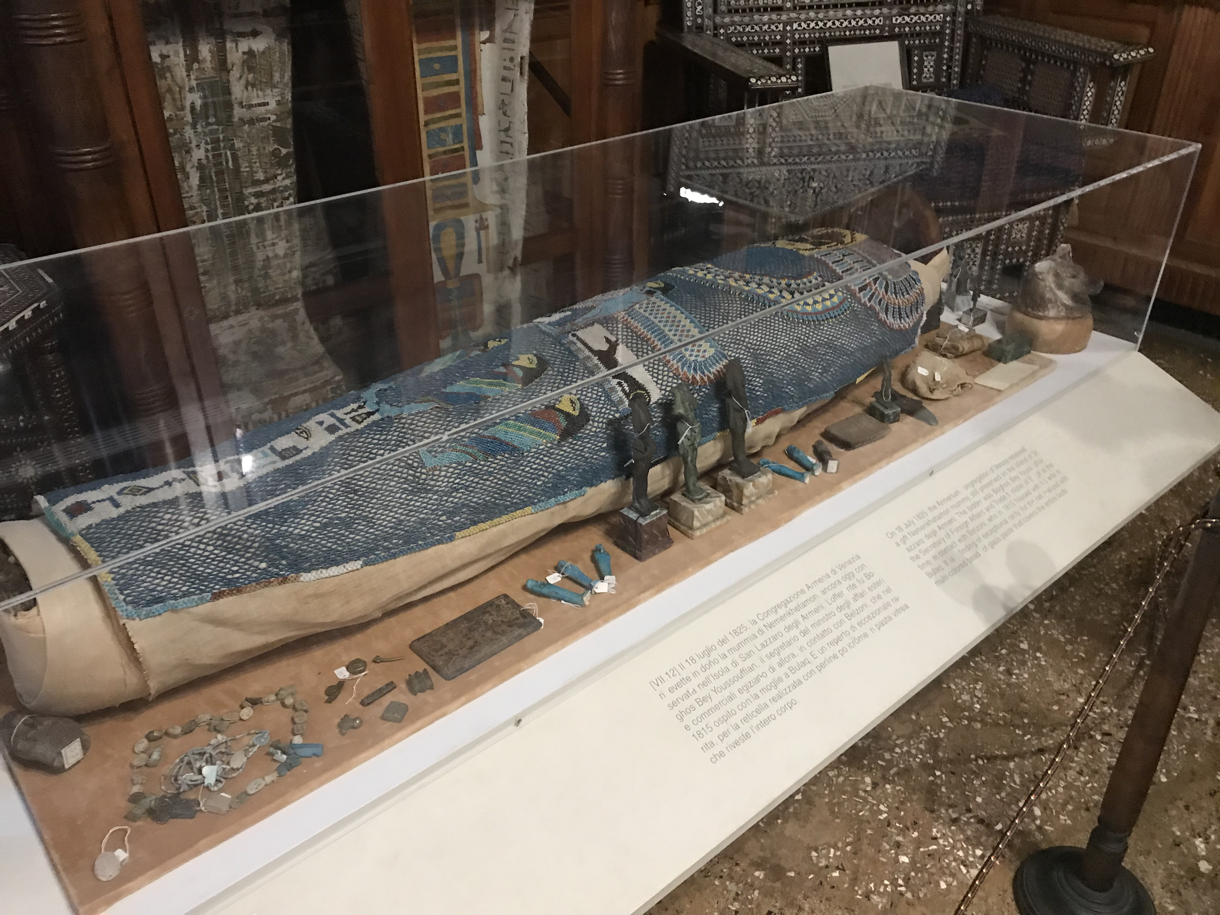 An Egyptian mummy at San Lazzaro degli Armeni